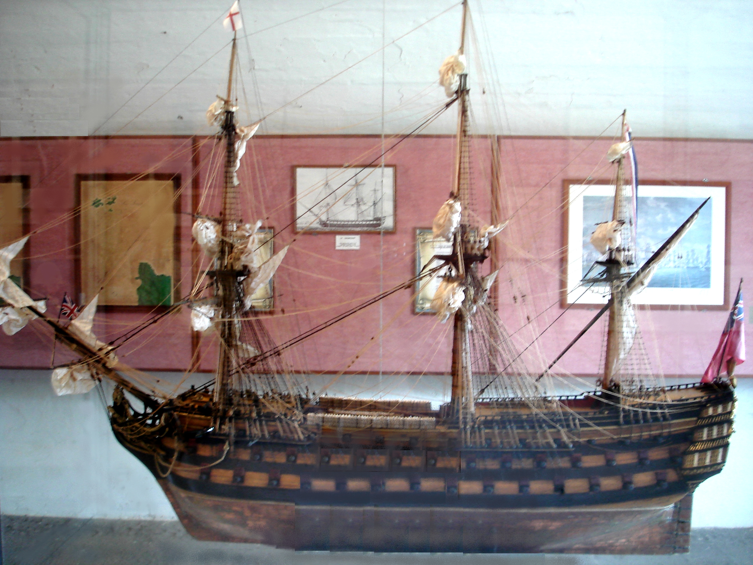 Scale model of HMS Formidable, flagship of Rodney at the Battle of the Saintes. On display at Fort Napoléon des Saintes museum.